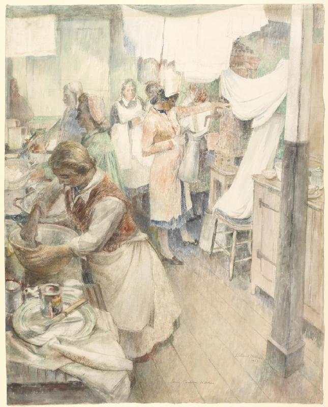 Six women wearing aprons work in a narrow kitchen hung with laundry. One id filling a water jug from a large urn, others are using large mixing bowls.